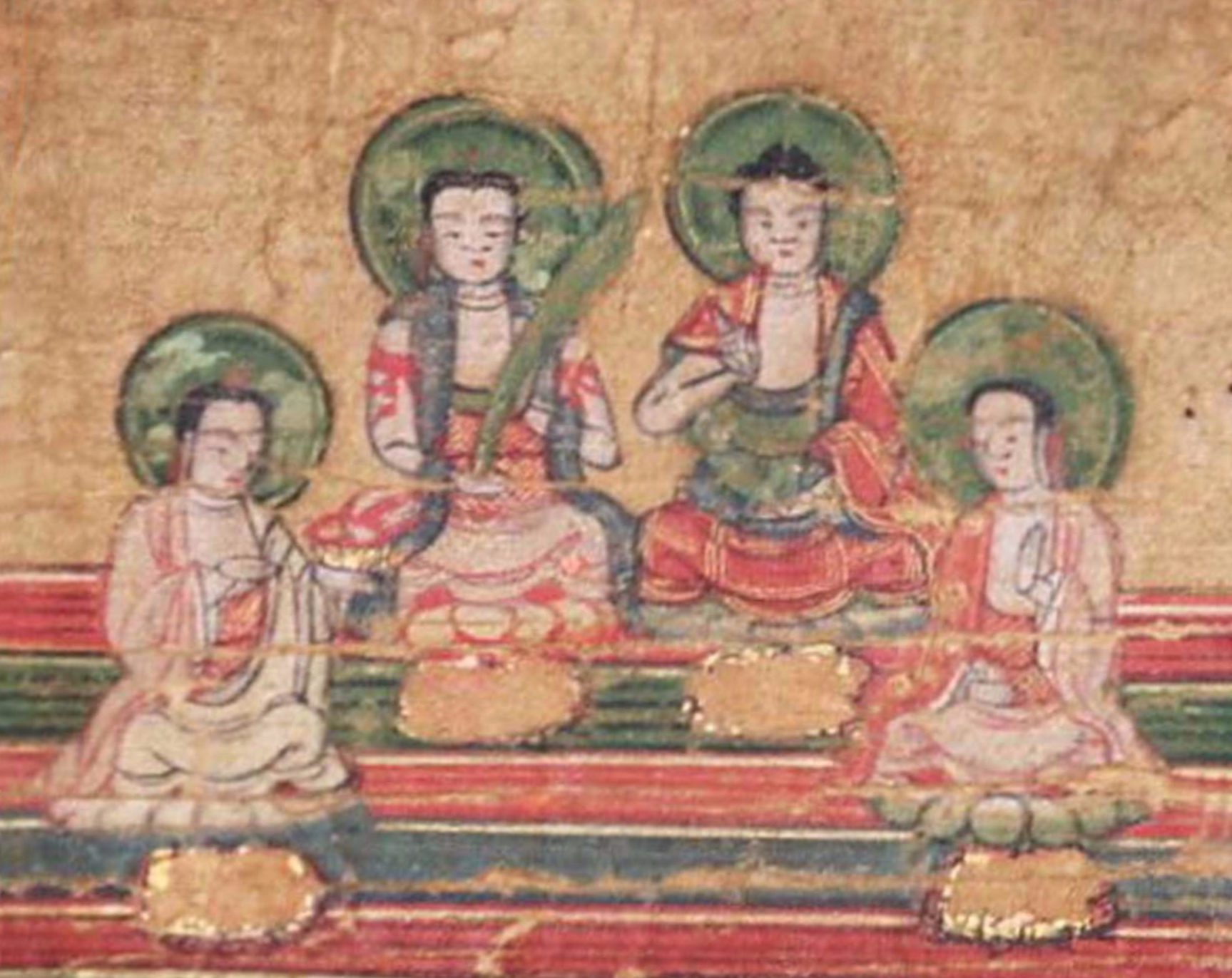 The four primary prophets of Manichaeism in the Manichaean Diagram of the Universe, from left to right: Mani, Zoroaster, Buddha and Jesus. — Stated in Zsuzsanna Gulácsi’s Mani’s Pictures: The Didactic Images of the Manichaeans from Sasanian Mesopotamia to Uygur Central Asia and Tang-Ming China, p. 368.